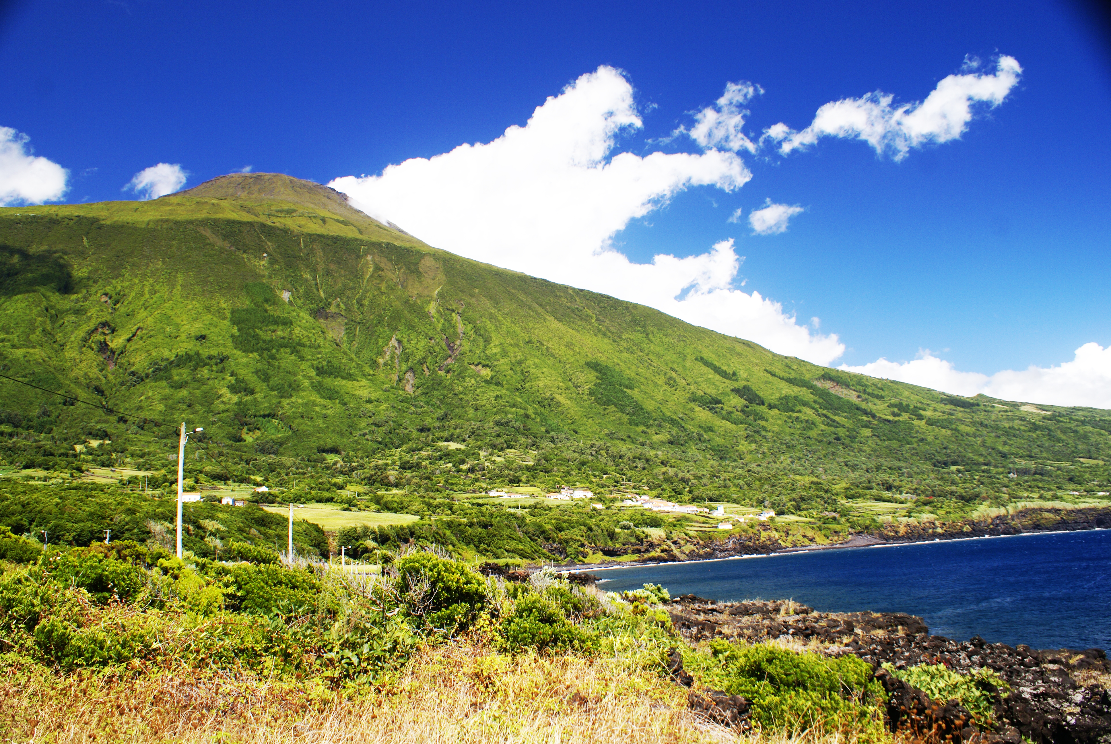 Baía da Prainha com a Montanha do Pico como fundo, São Caetano, ilha do Pico, Açores, Portugal